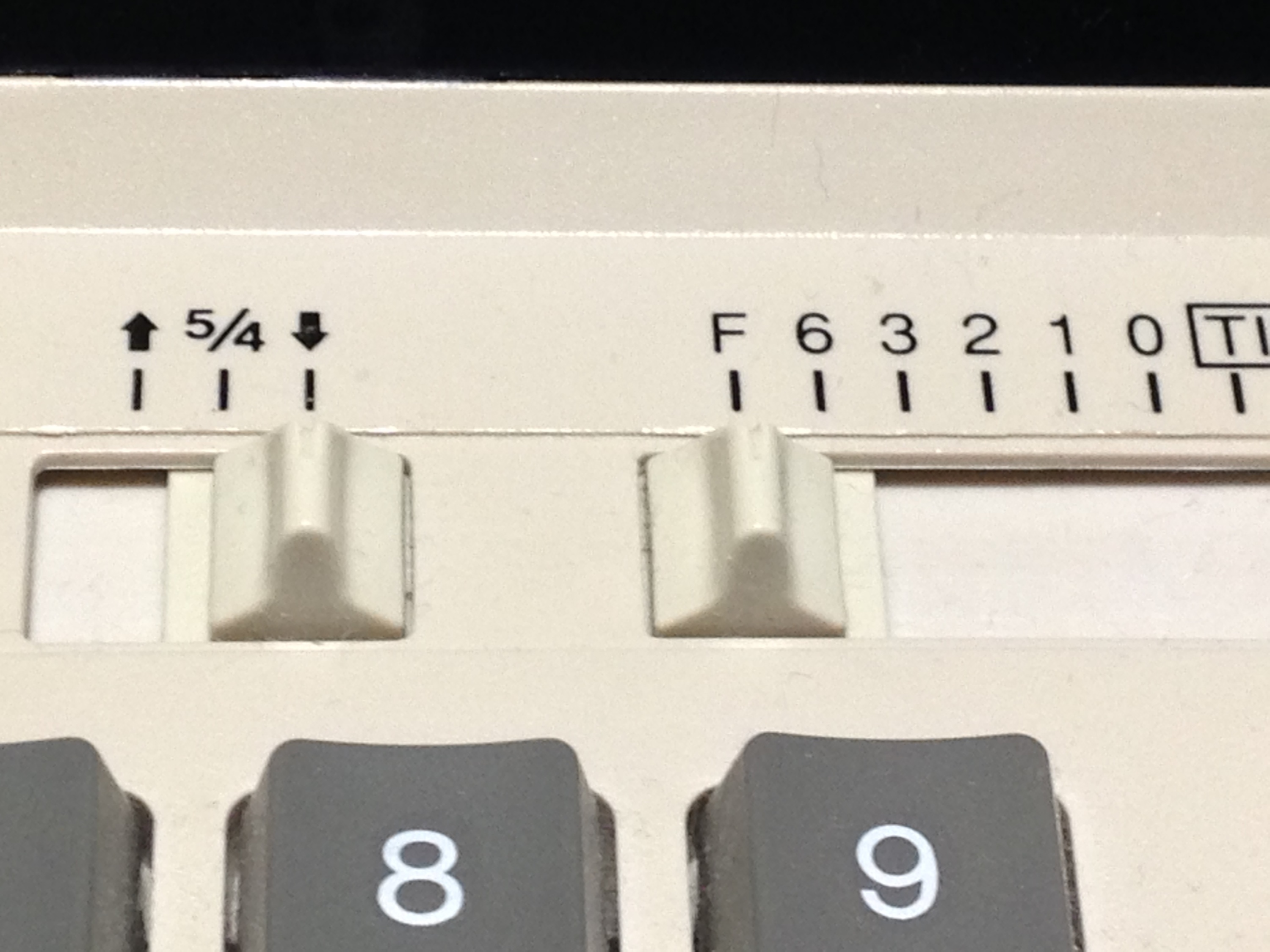 Rounding selector on Sharp Compet CS-2122L